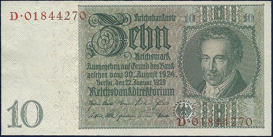 10 Reichsmark Berlin Germany 22 January 1929. Reichsbanknote. Watermark ornaments. Underprint letter missing. No serial numbers on the reverse. It pictures Albrecht Daniel Thaer, Medical Doctor and Reformer of Agriculture and Farming, 1752 Celle - 1828 Moeglin near Wrietzen / Oder. Pick 180b. This bank note was edited at the end of WWII, and valid after WW2 until the issue of the Deutsche Mark on 21 June 1948. In comparison to the 1933 issue with a Gothic underprint letter, this note of the 1945 issue has no underprint letter, and a different water mark at left, and no serial numbers on the reverse. Condition: UNCIRCULATED